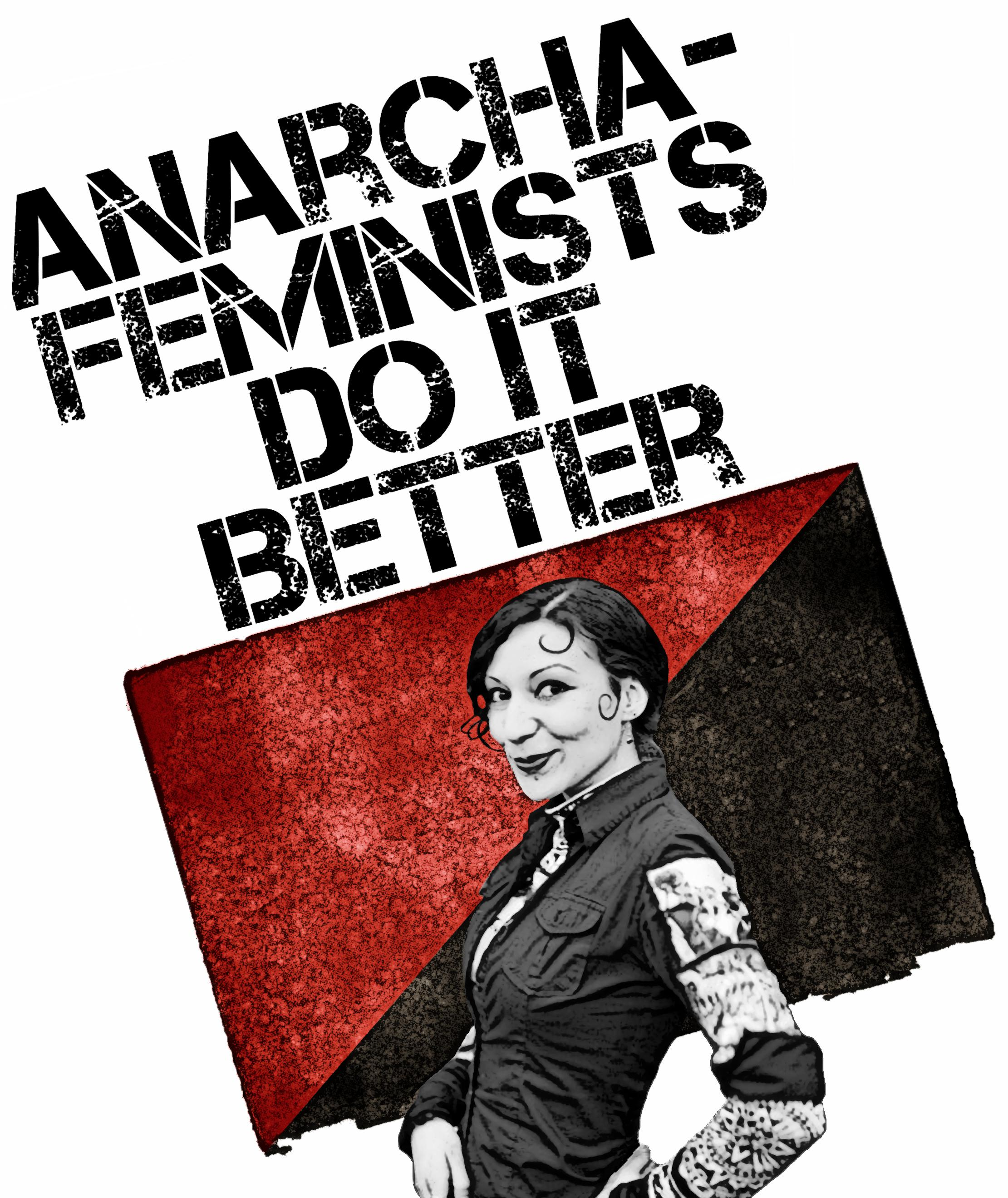 Poster with the writing "Anarcha-Feminists Do It Better"